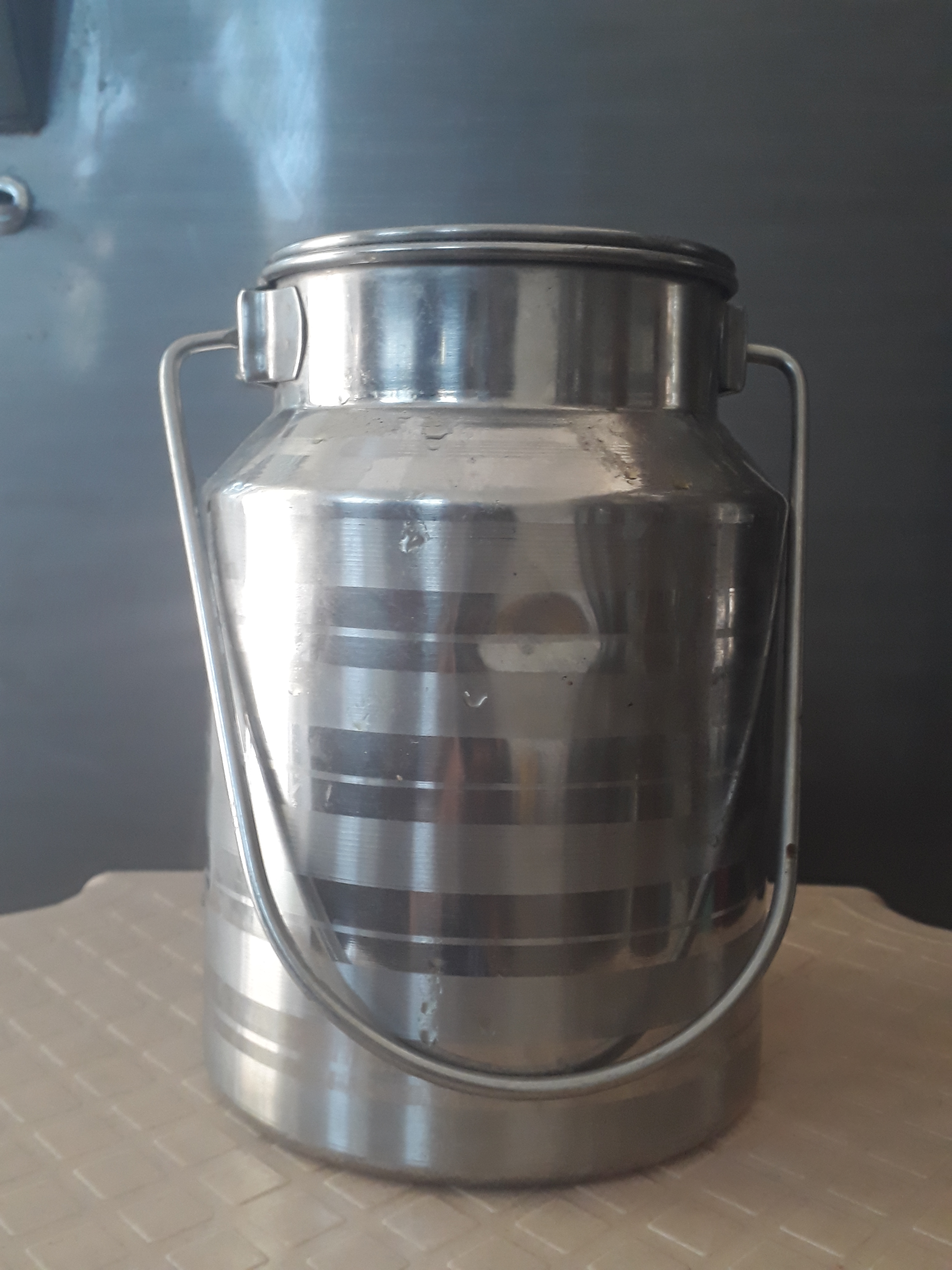 किटली